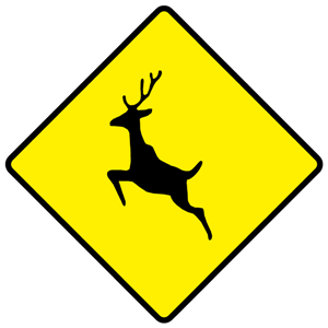 W153 Deer or Wild Animals - Warning Sign Ireland